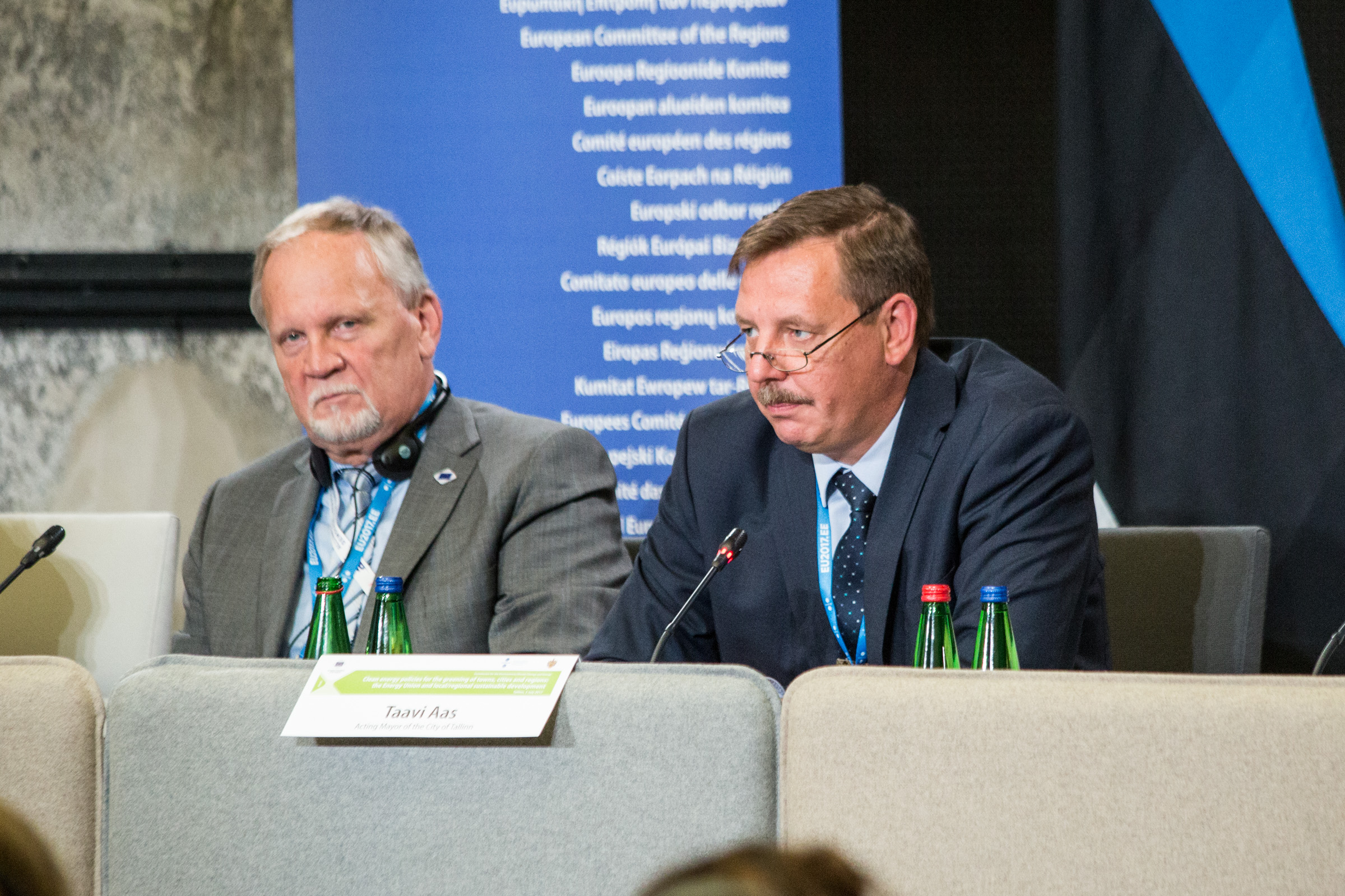 Kalev Kallo, Taavi Aas